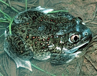 crop of file in file name